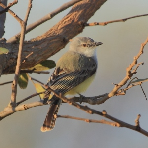 Suiriri Flycatcher at Dourado - SP - Brazil